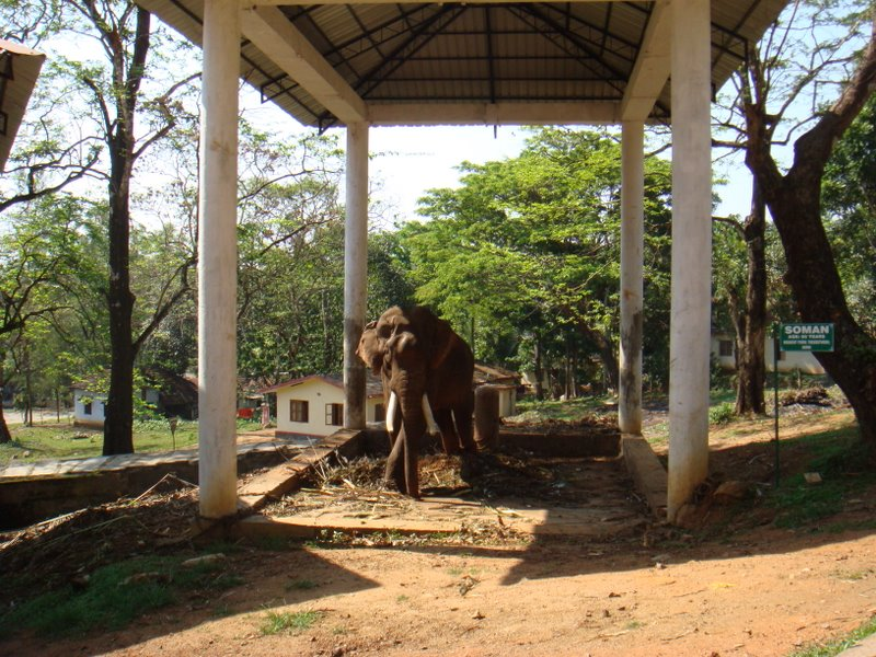 Indian Elephant